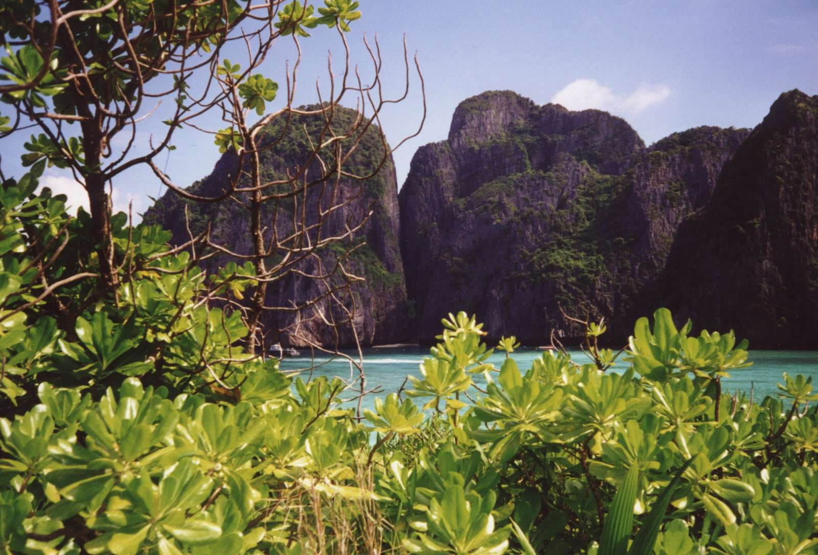 View of the Maya Bay on Ko Phi Phi Lee, Krabi province, Thailand. Photo taken by User:Ahoerstemeier on April 11, 2001.